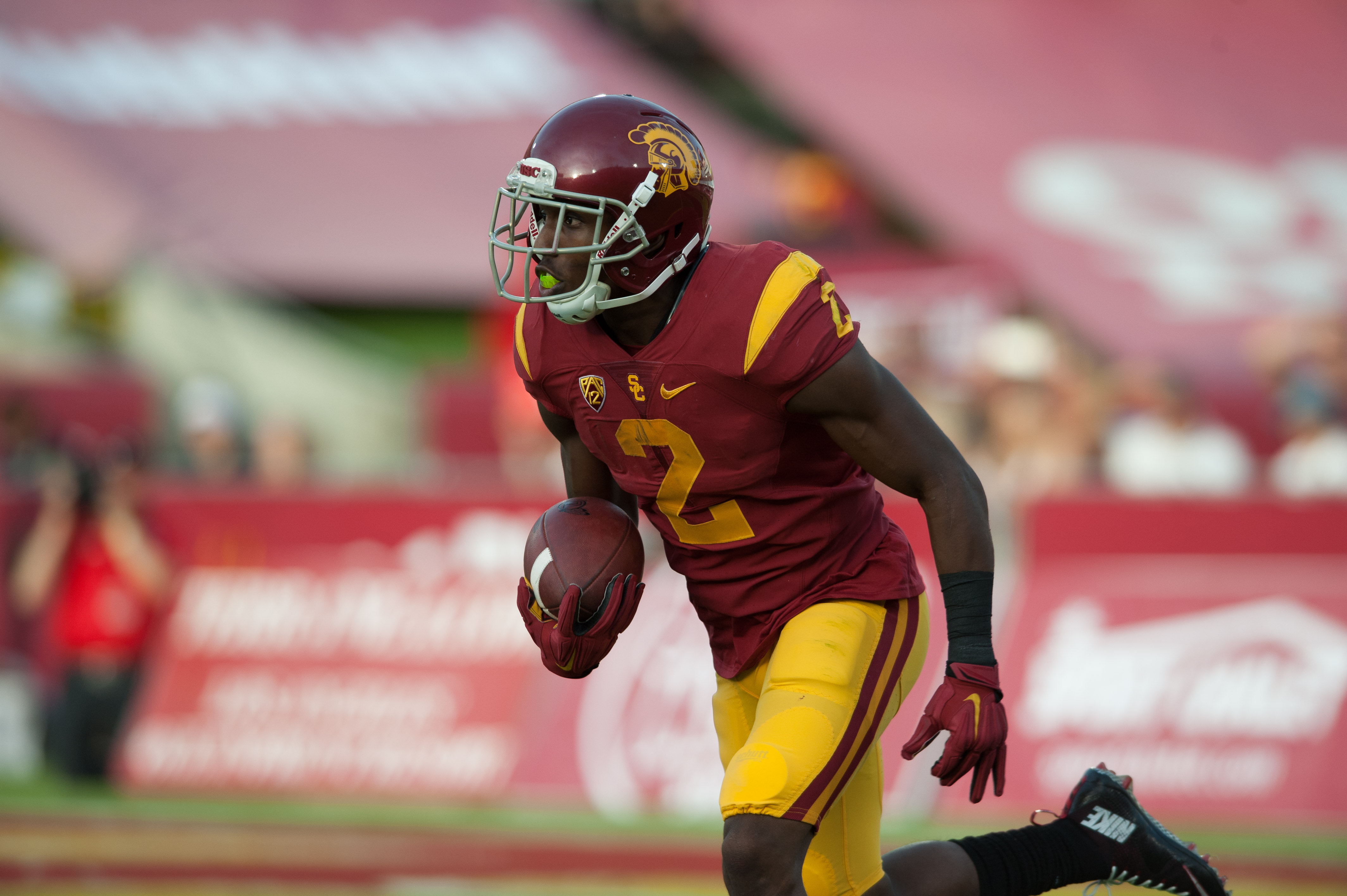 USC Trojans cornerback, Adoree' Jackson, playing against the Utah Utes on October 24, 2015.